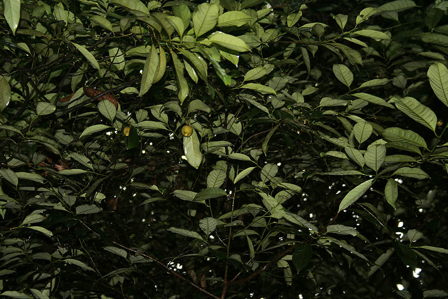 Myristica fragrans- Jaiphal, Nutmeg, Mace, Javatri, Rama-patre- in Goa, India.